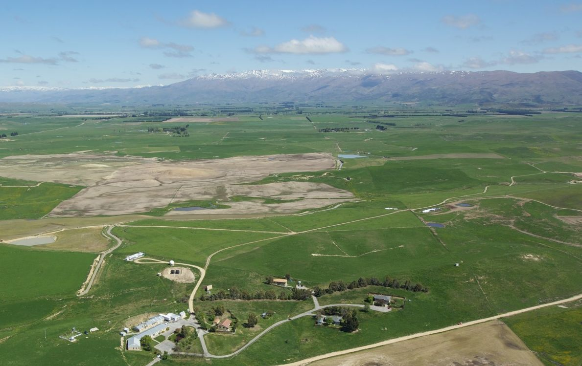 Aerial view of the Lauder atmospheric research station, 2011